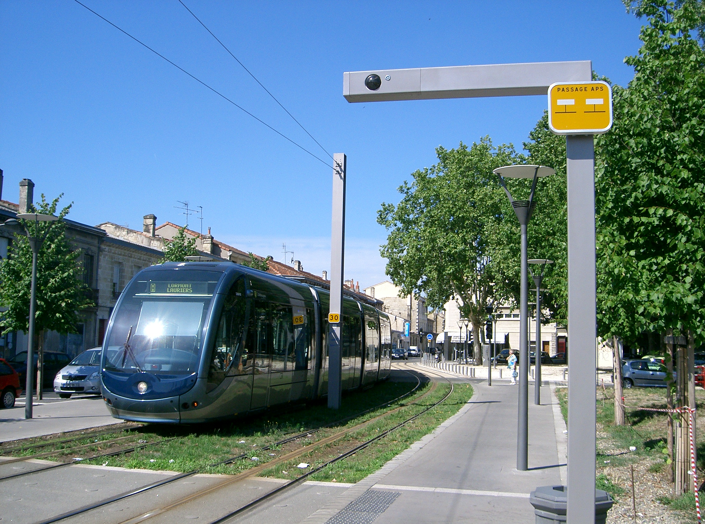 An eastbound route A tram travelling on APS arrives at Gaviniès tramstop which is also a transition point between APS and overhead wires. The sign on the CCTV post tells the tram driver to travel in APS mode. Also visible is an end mast for the overhead wires. Photographed by SPSmiler summer 2006